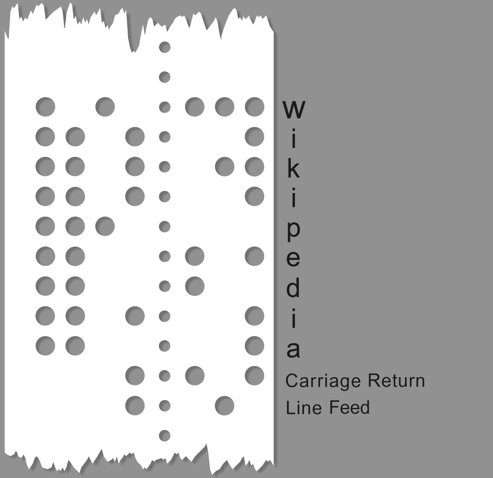 This is a simple example of a piece of paper tape with the word "Wikipedia" followed by a Carriage Return and Line Feed. Encoding: ASCII, with least significant bit on the right.